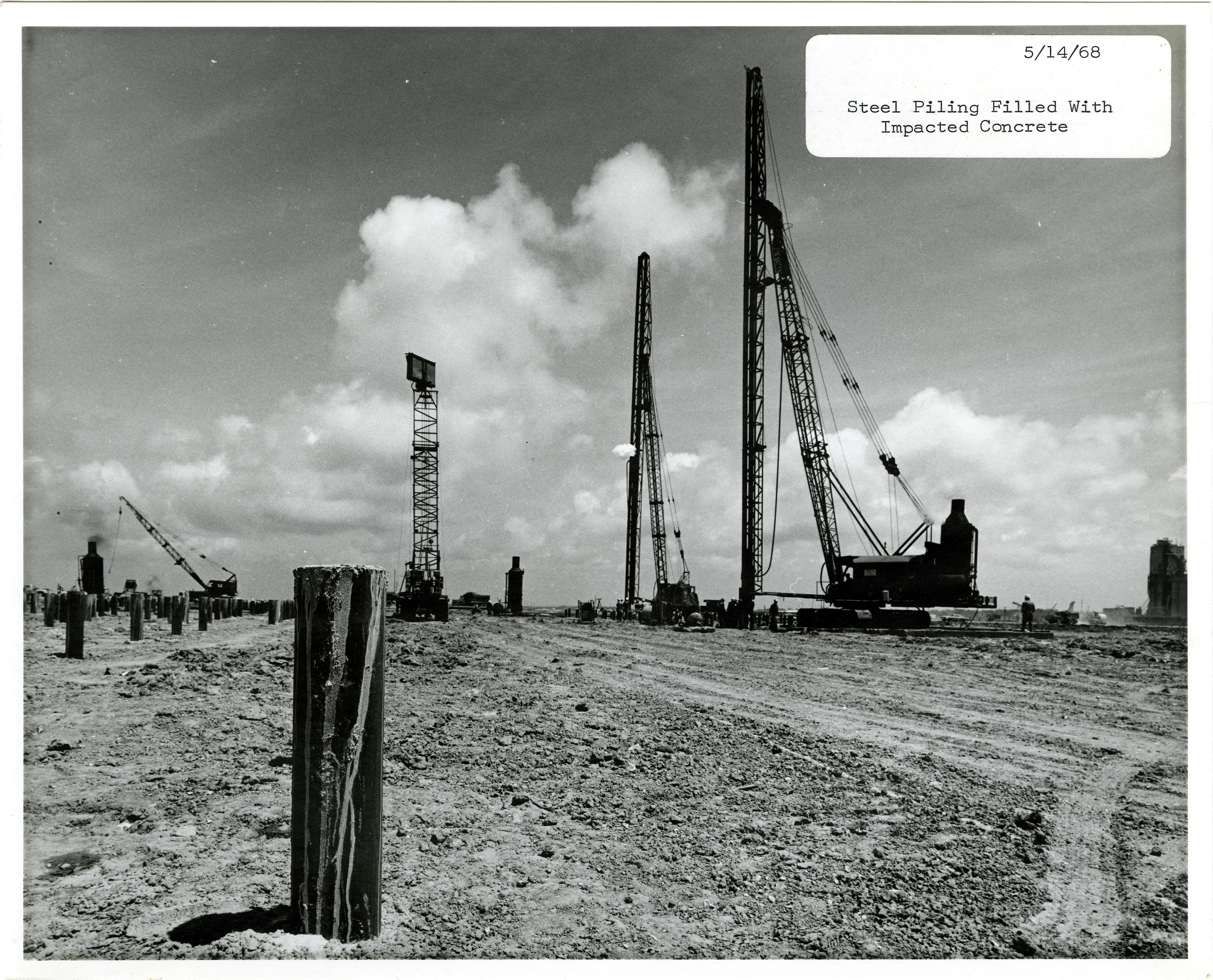 Collection: Ingalls Shipyard West Bank Expansion Collection Call number: PI/SF/IND/1986.0017 System ID: 105327. Steel Piling Filled With Impacted Concrete, 5/14/68. Please see our profile page for information on ordering. Scanned as tiff in 2011/03/24 by MDAH. Credit: Courtesy of the Mississippi Department of Archives and History